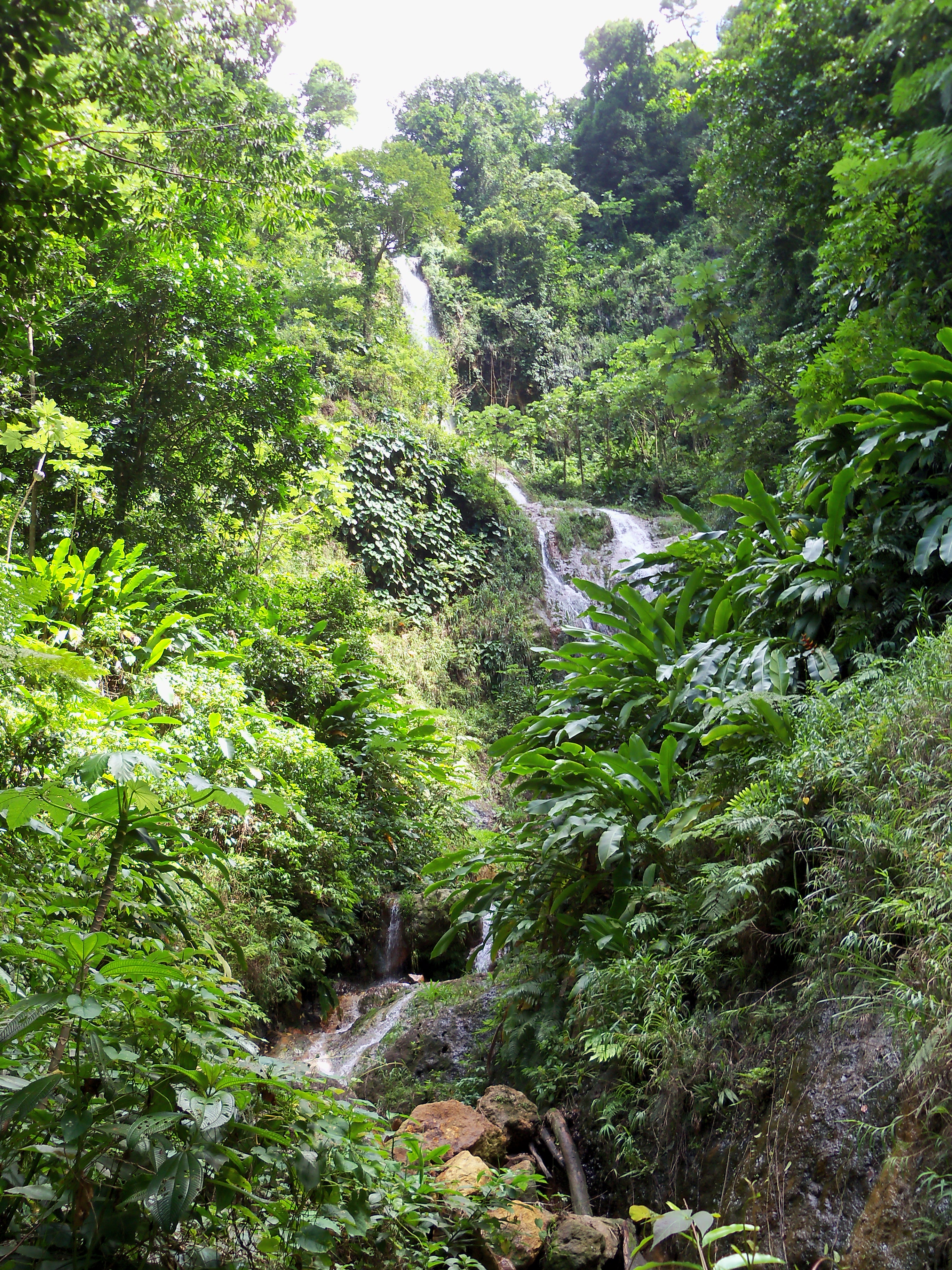 Tufton Hall Waterfalls in St. Marks, Grenada, West Indies. Possibly the highest falls on the island (no one's actually measured Tufton or Mt. Carmel).